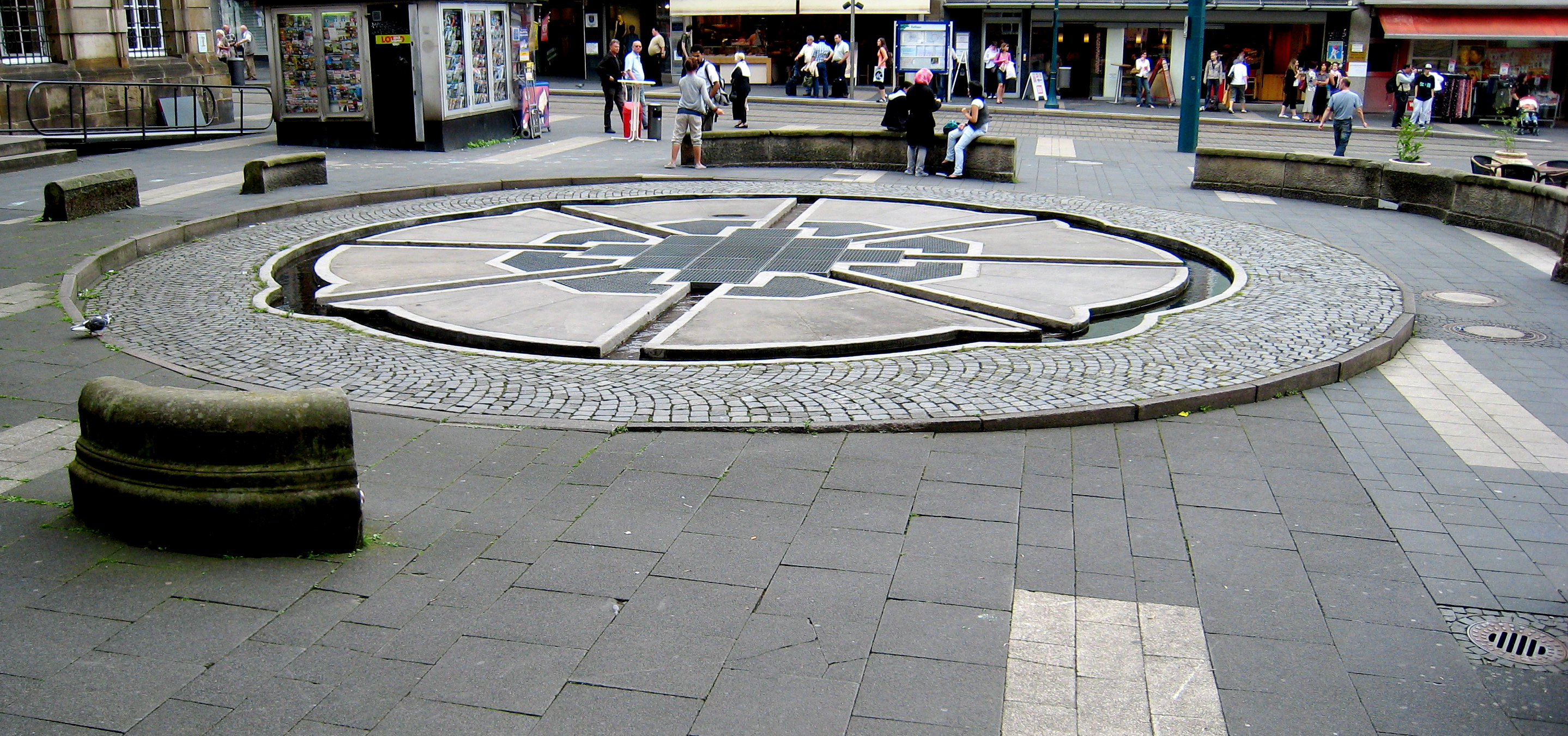 Fountain replacing the original Aschrottbrunnen which has been demolished in 1939 for being a "jewish building". The new fountain dates from 1987 and was built "inverted", i. e. it goes down into the earth rather than upwards.